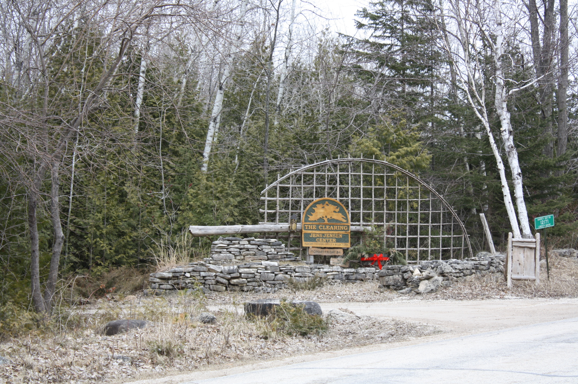 The Clearing — designed by garden designer Jens Jenson, in Ellison Bay, Door County, Wisconsin. It is listed on the National Register of Historic Places.